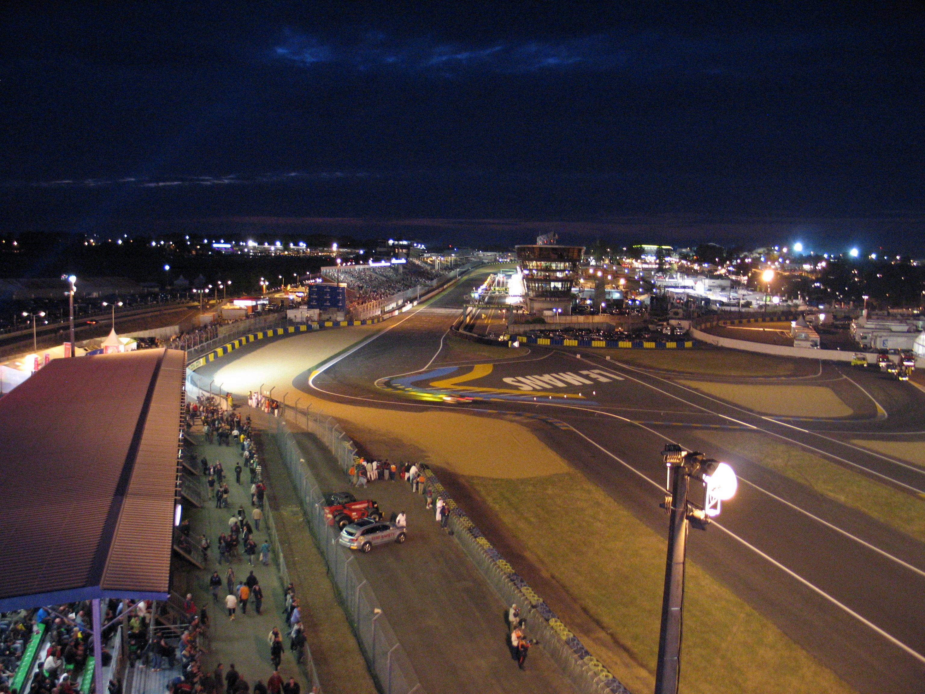 The Ford Chicanes and garage complex of the Circuit de la Sarthe viewed during qualifying for the 2009 24 Hours of Le Mans.